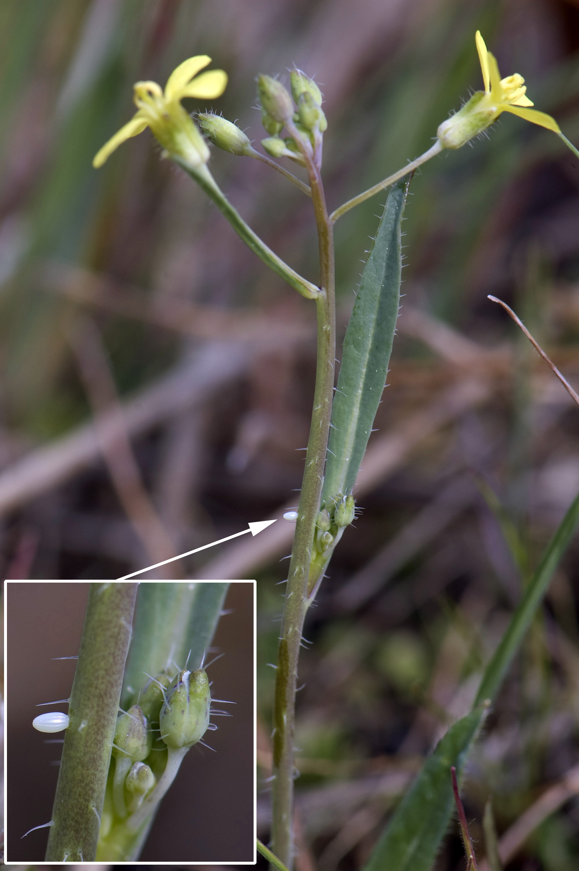 Egg of Green-veined White (Pieris napi) (Lepidoptera, Pieridae) on field mustard (Brassicaceae). La Alberca (Salamanca, Spain)